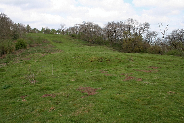 Mediaeval Rabbit Warren, Hollybush Hill Inside the iron-age hill fort, this was often marked as a "Pillow Mound" on older maps. It was confirmed as a rabbit warren after examination by Dr Stan Stanford who surveyed the hill-fort and undertook several archaeological excavations in the 1960s. This is located in the saddle between the northern peak (visible) and the southern peak of Hollybush Hill.